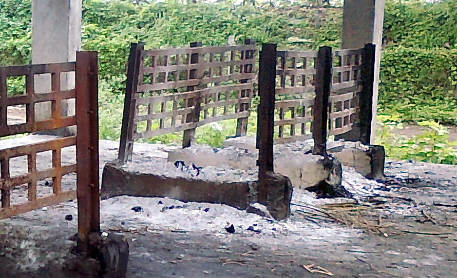 Ashes after cremation of dead human body at shamshan ghat, Chinawal-Utkheda road, Chinawal village, Maharashtra, India